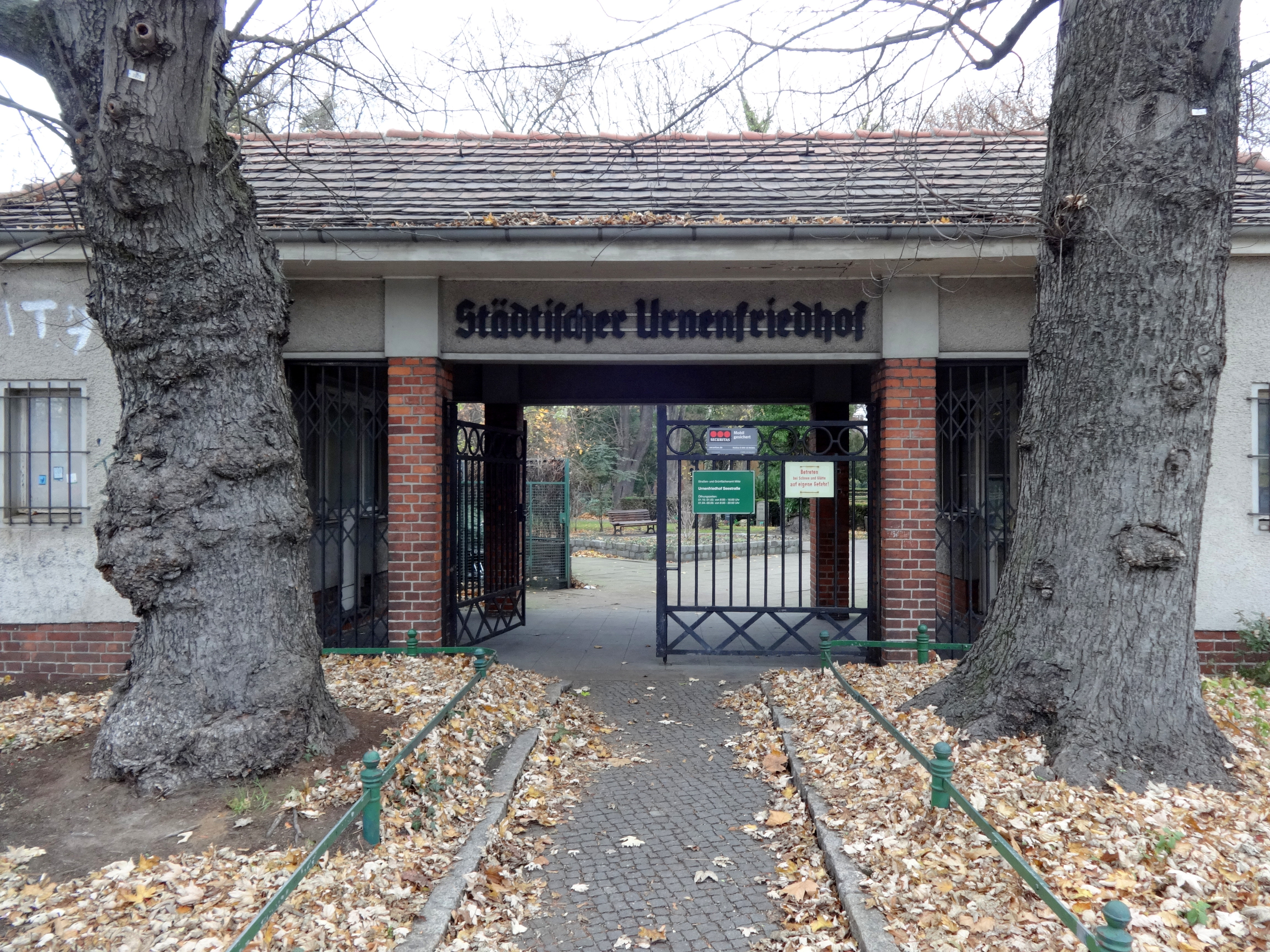 Berlin-Wedding in November